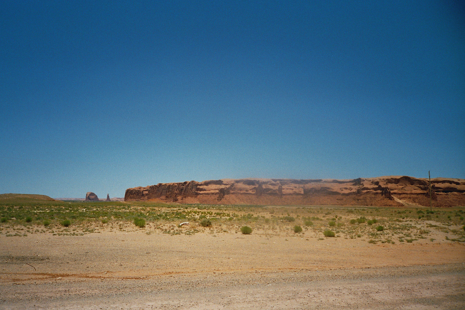 SR 264 East Apache County AZ